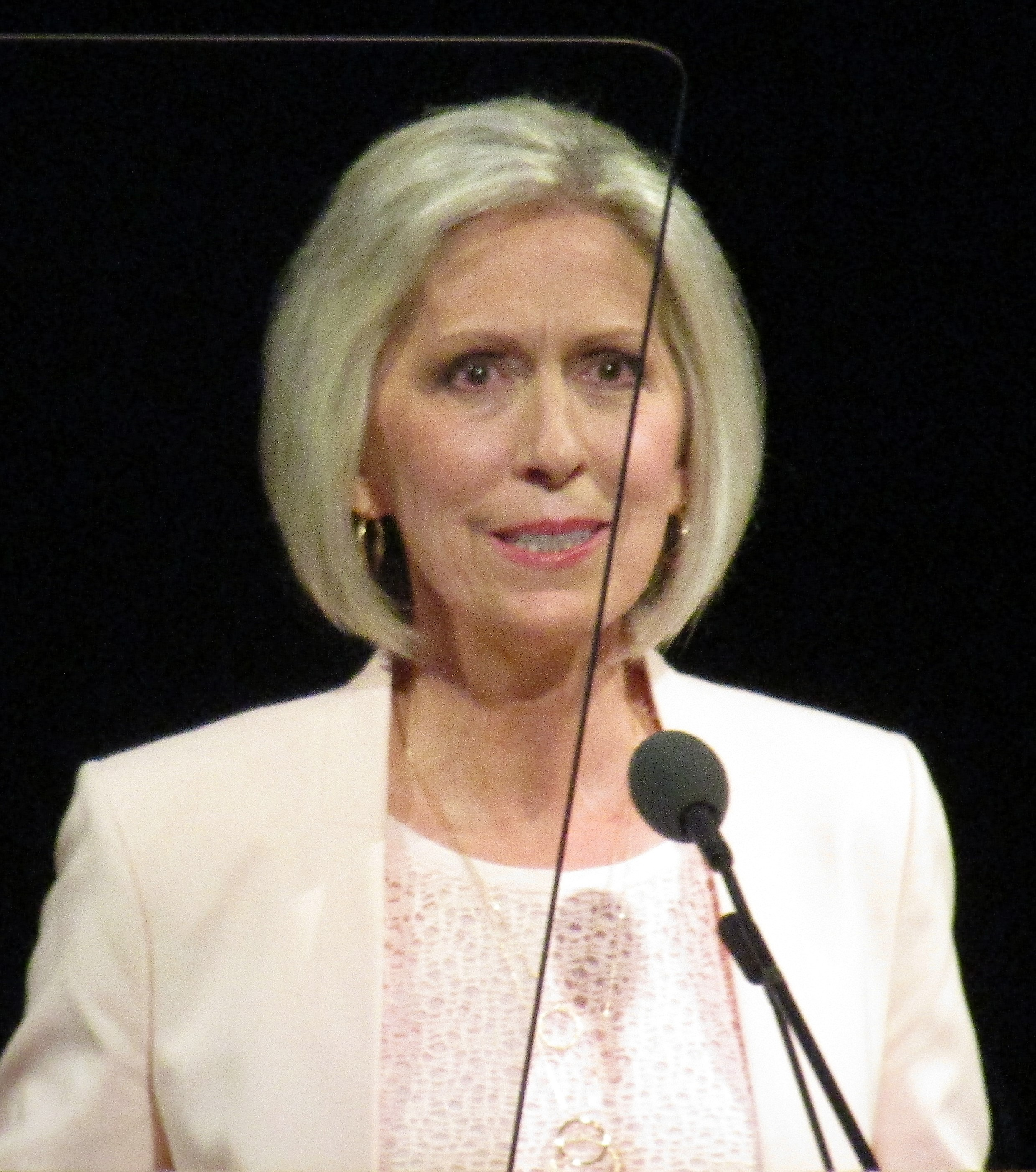 Joy D. Jones, the Primary general president, speaking at the BYU Women's Conference.